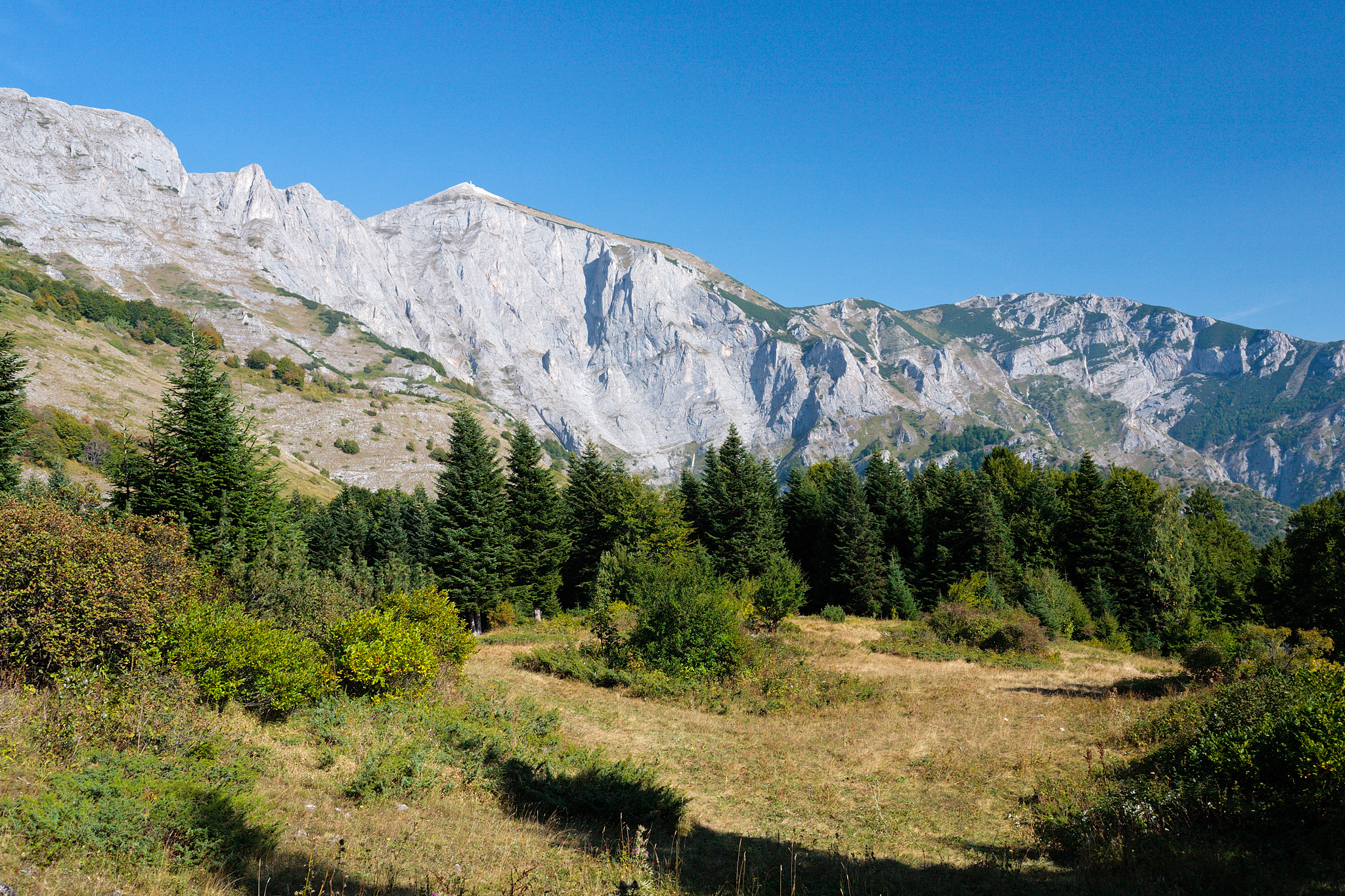 Solunska glava peak in Jakupica mountain, Macedonia